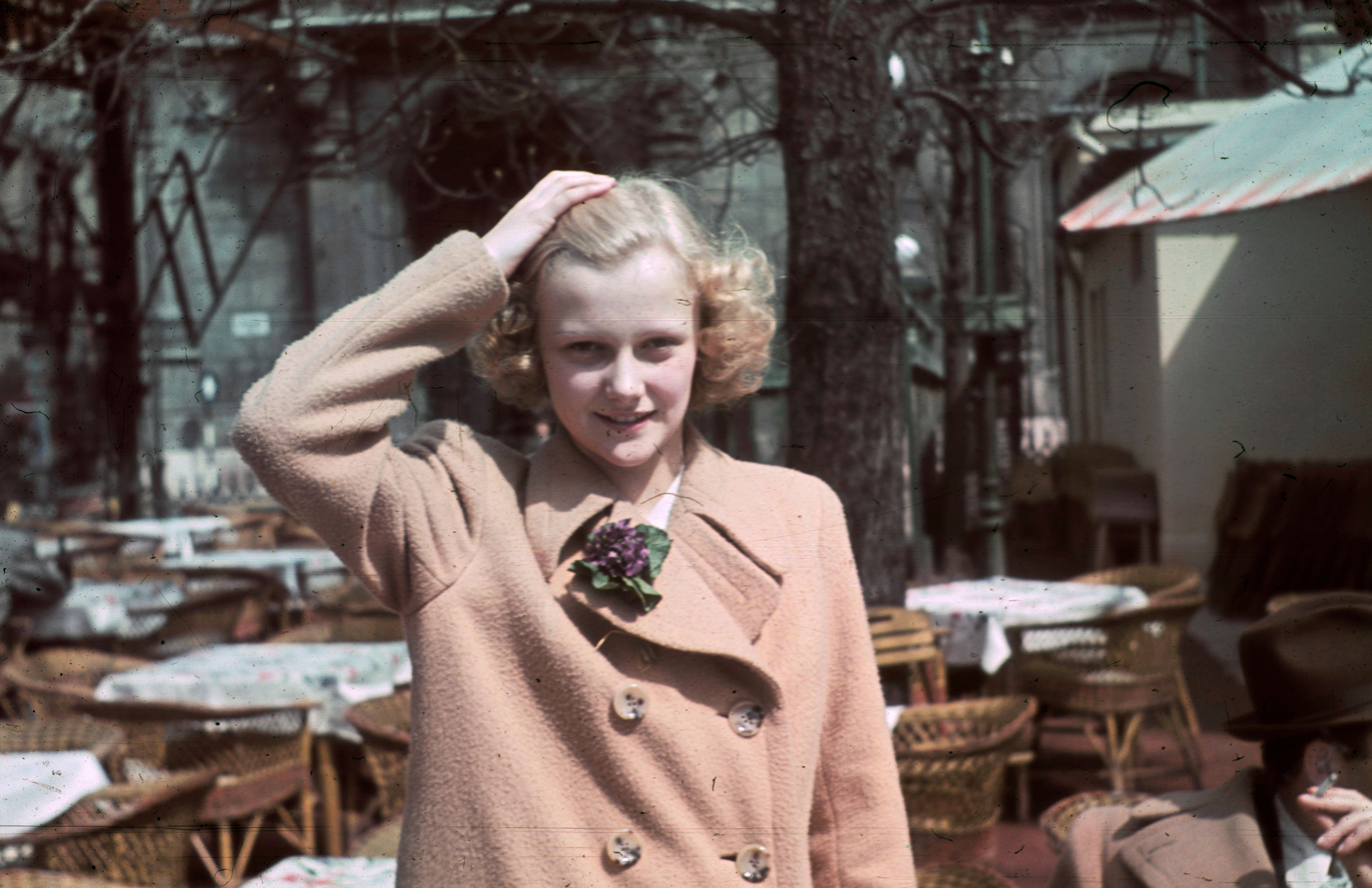 Location: Hungary, Budapest V. Tags: colorful, portrait, hospitality, lady, celebrity, Budapest, coat